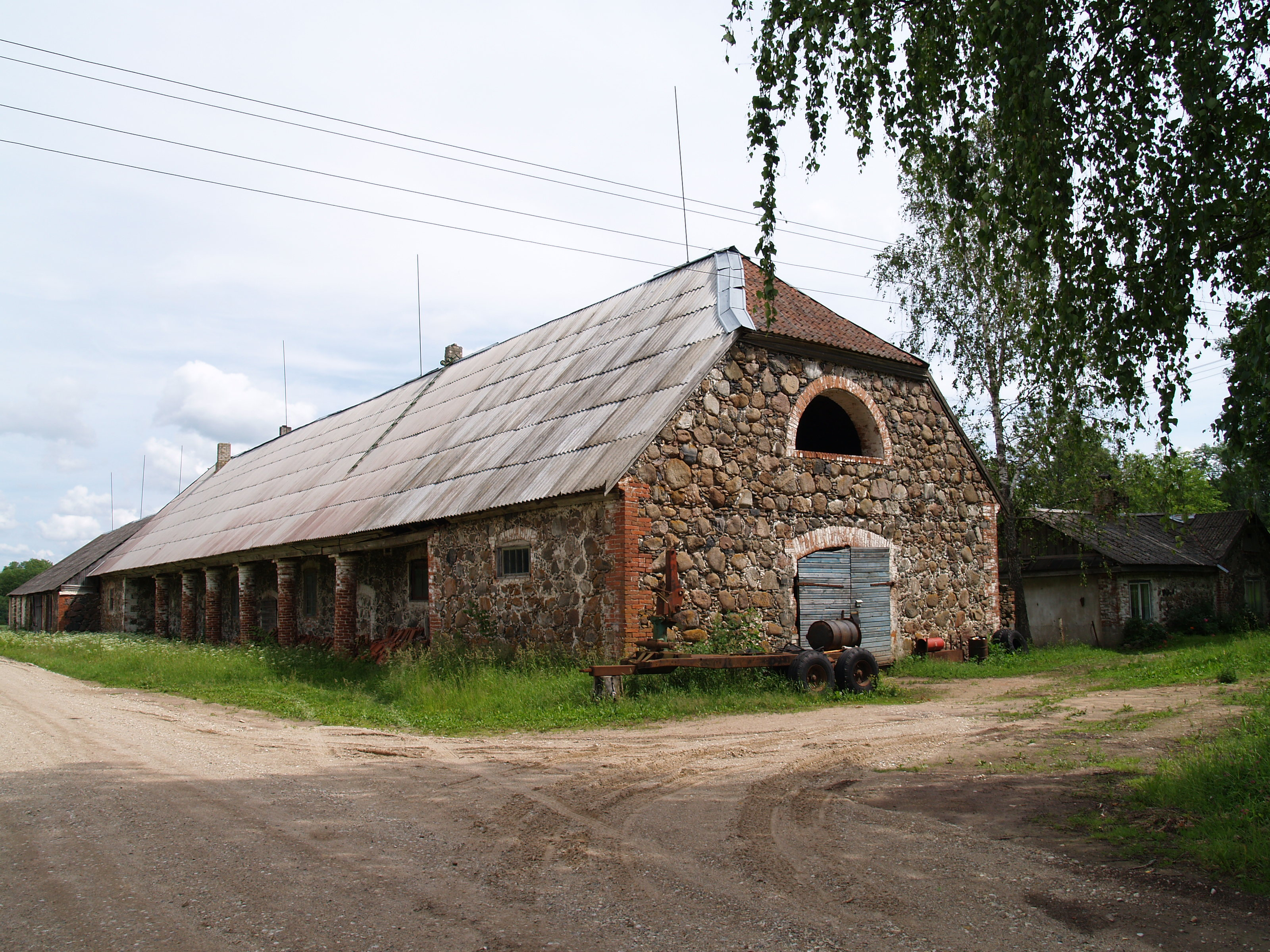 Lahmuse manor - barn. Nowdays in private property.